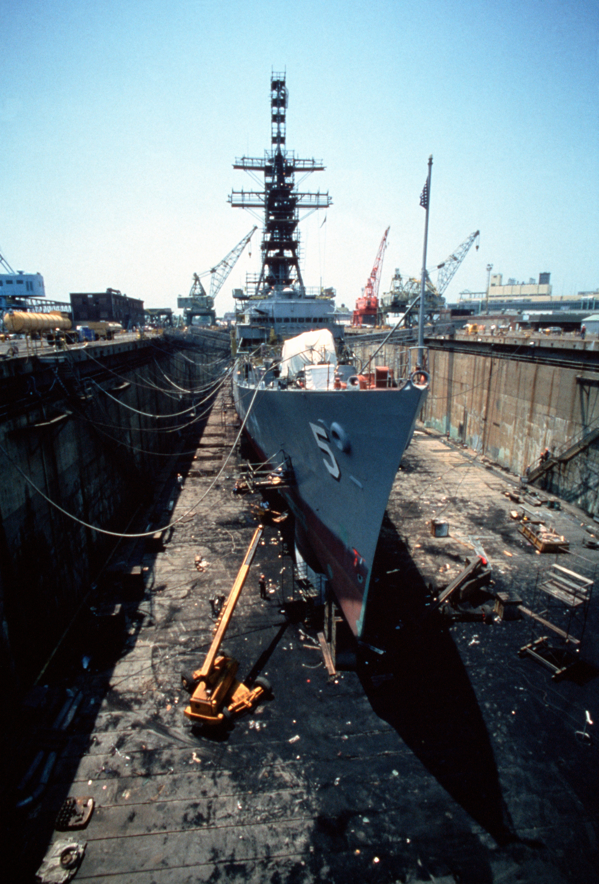 The U.S. Navy guided missile destroyer USS Claude V. Ricketts (DDG-5) in drydock for overhaul at the Norfolk Naval Shipyard, Virginia (USA).